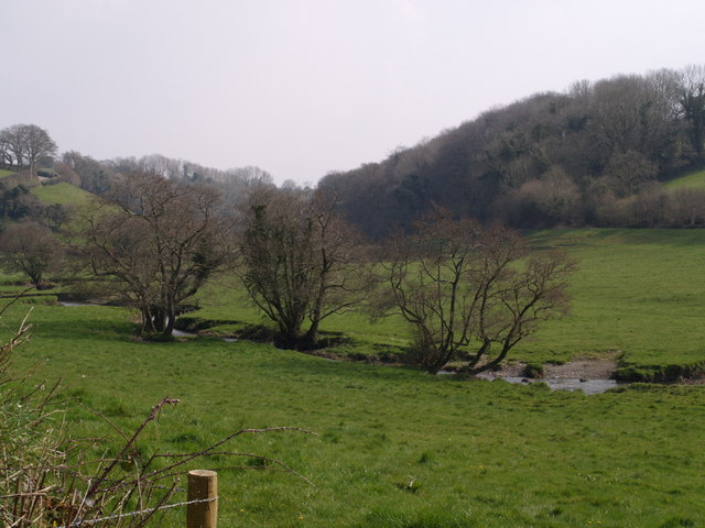 River Lumburn The Lumburn, a tributary of the Tavy, wriggles across its valley floor below Millhill.